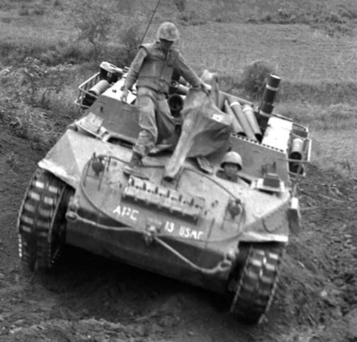 An M-39 Armored Utility Vehicle arrives at Baker Company, 1st tank Battalion, 1st Marine Division, with ammunition for their tanks during second battle of Outpost Vegas, Korea, 29 May 1953.